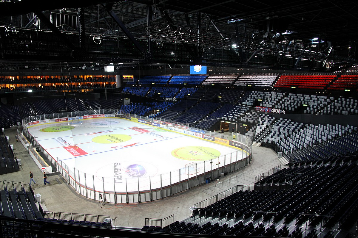 Home of the ZSC Lions. 80th anniversary.